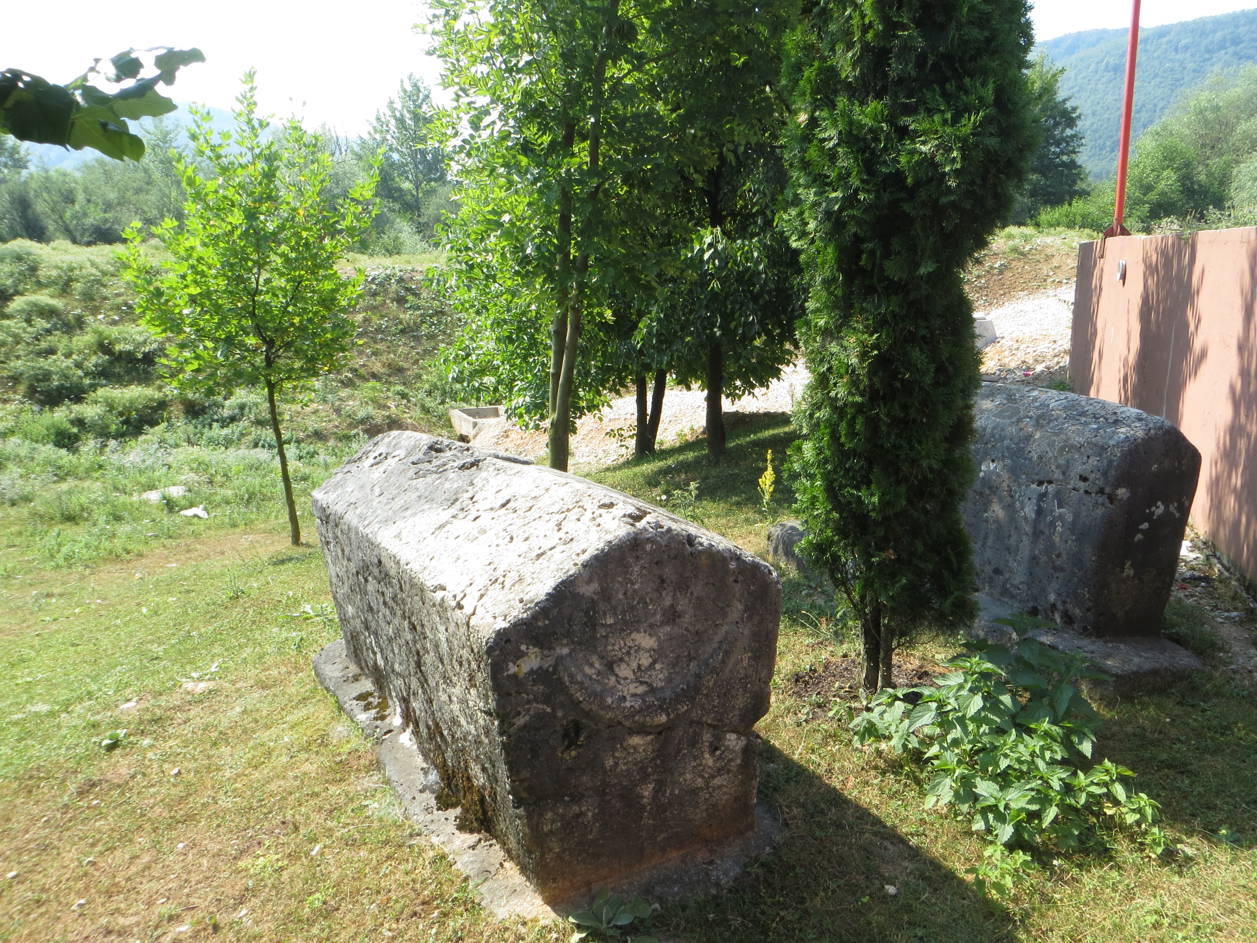 This cultural heritage site is made up from aproximatly 21 stećak and 12 nišan transported to their current location due to nearby quarry, in Krupac, extending its operation to their former location.Two stećak monuments and one nišan monument are separated from the main find and are situated in the nearby settlement of Vojkovići. This image was uploaded as part of Trace of Soul 2015.